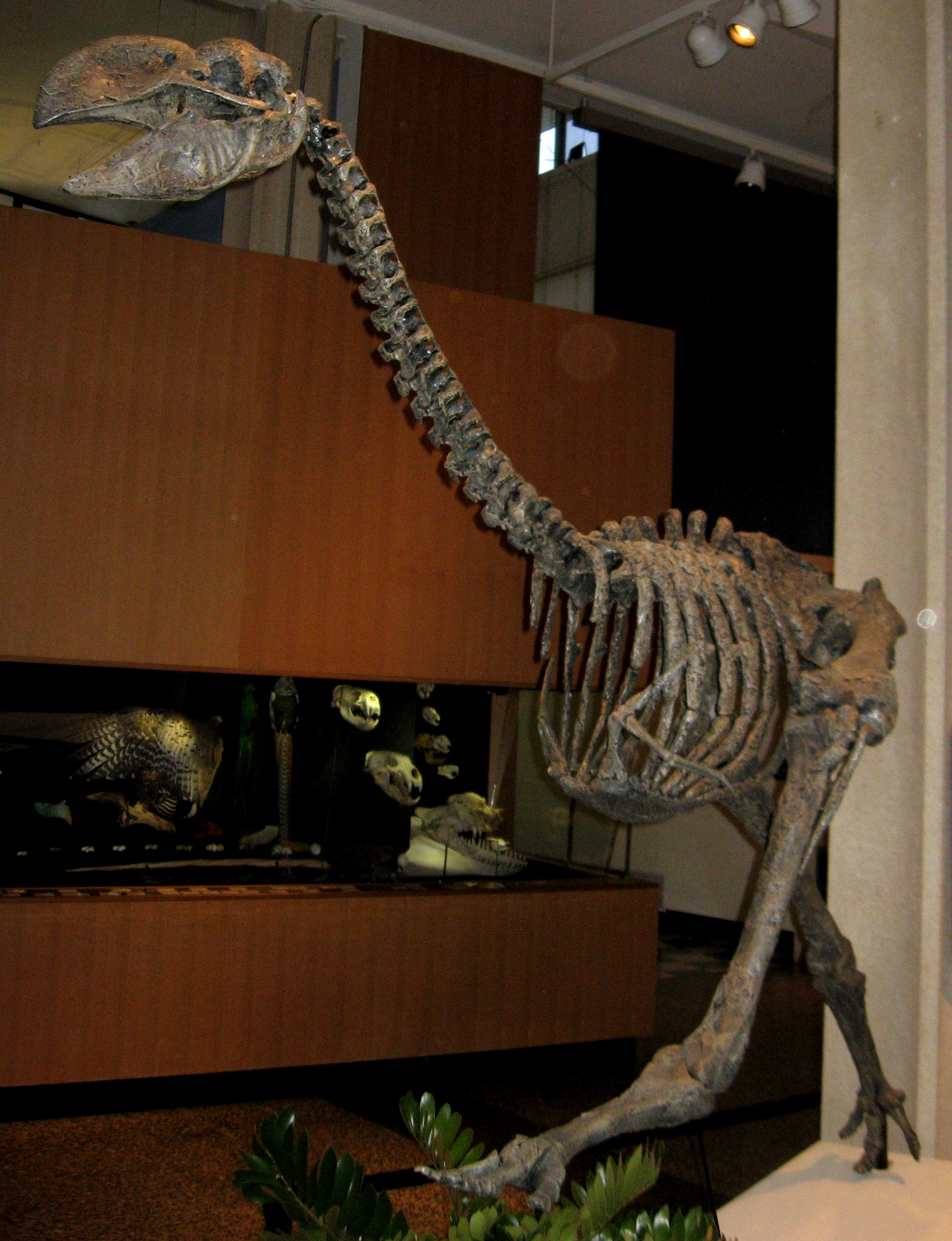 A fossil (cast) of the extinct Dromornis stirtoni from Australia. Photographed at Dinoday 2009